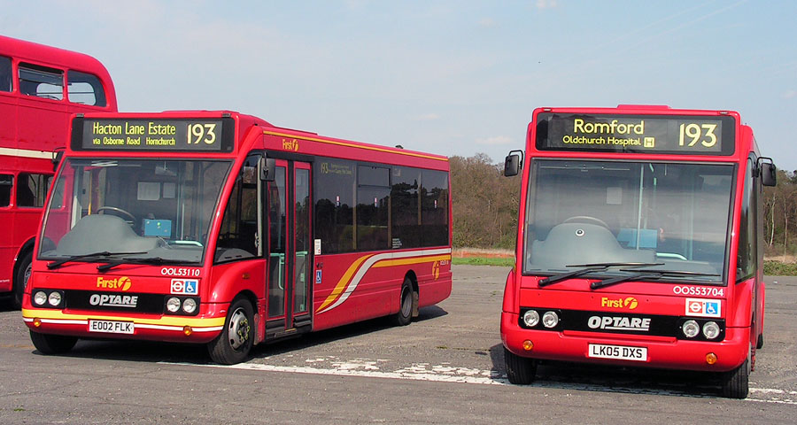 First London OOL53110 (EO02 FLK) (left) and OOS53704 (LK05 DXS) (right), both Optare Solos, at the 2005 Cobham bus rally at Wisley Airfield.